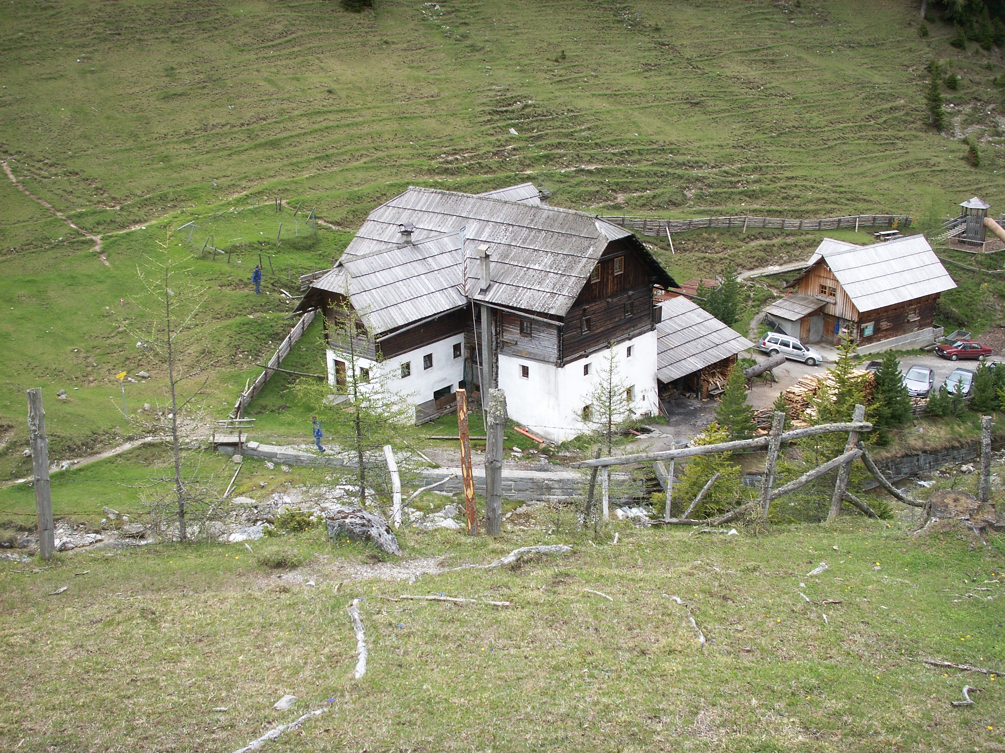 Alpine pasture, an old farmers spa still in use near Innerkrems in the Nockberge mountain range, district Spittal an der Drau / Carinthia / Austria / EU. Seen from west.